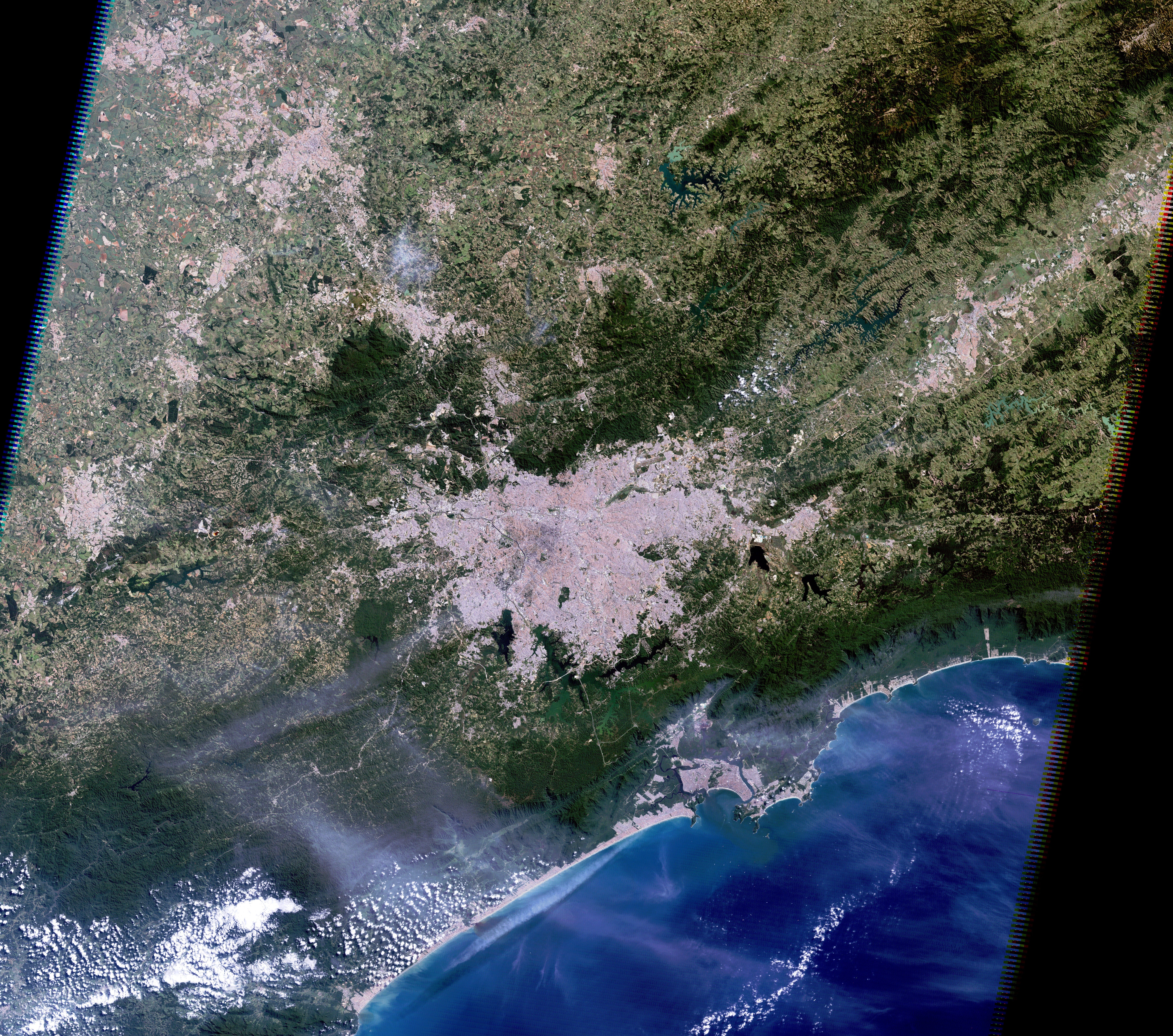 São Paulo satellite image, Landsat-5 2010-04-18, near natural colors, resolution 30 m Used images id LT52190772010108CUB00 and LT52190762010108CUB00